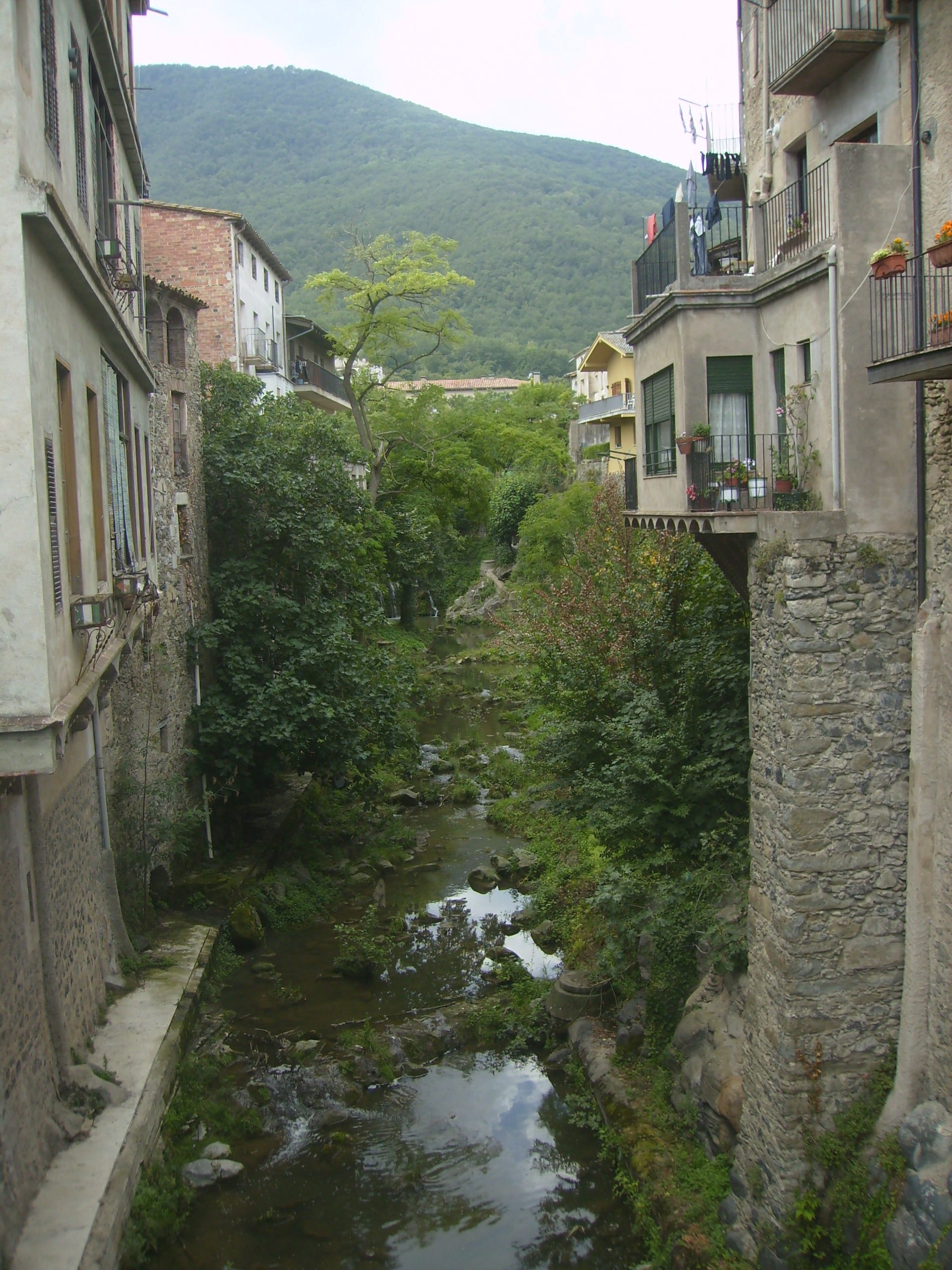 River Brugent in Sant Feliu de Pallerols, la Garrotxa, Catalonia.